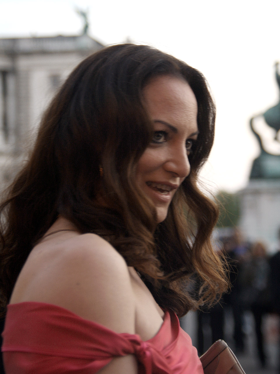 Natalia Wörner at the Romy TV awards (Hofburg Imperial Palace in Vienna)